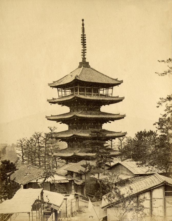 Spaarnestad Photo, SFA003006708 Pagode in Yasaka, Japan. [Omstreeks 1868-1895]. [Foto uit een reeks van 42 afdrukken in de collectie van Spaarnestad Photo van de hand van Felice Beato, Kusakabe Kimbei of baron Raimund von Stillfried.] Collectie SPAARNESTAD PHOTO/Het Leven Pagoda in Yasaka, Japan [around 1868-1895]. [Photo from series of 42 prints at Spaarnestad Photo by Felice Beato, Kusakabe Kimbei or Raimund baron von Stillfried.] Voor meer informatie en voor meer foto’s uit de collectie van Spaarnestad Photo, bezoek onze Beeldbank: U kunt ons helpen onze kennis van de fotocollecties te verrijken door tags en commentaren toe te voegen. Herkent u mensen of locaties of heeft u een bijzonder verhaal te vertellen bij één van de foto’s, laat dan een reactie achter (als u ingelogd bent bij Flickr) of stuur een mailtje naar: You can help us gain more knowledge on the content of our collection by simply adding a comment with information. If you do not wish to log in, you can write an e-mail to